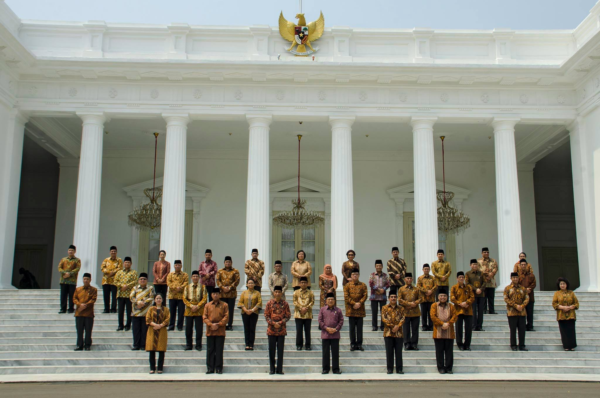 Ministers of the Indonesian Working Cabinet (2014-2019) during their official inaugurations in Merdeka Palace